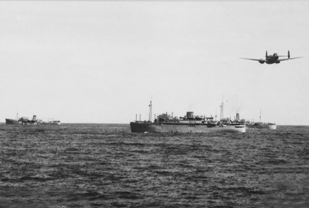 Troop convey (AWM 202820)